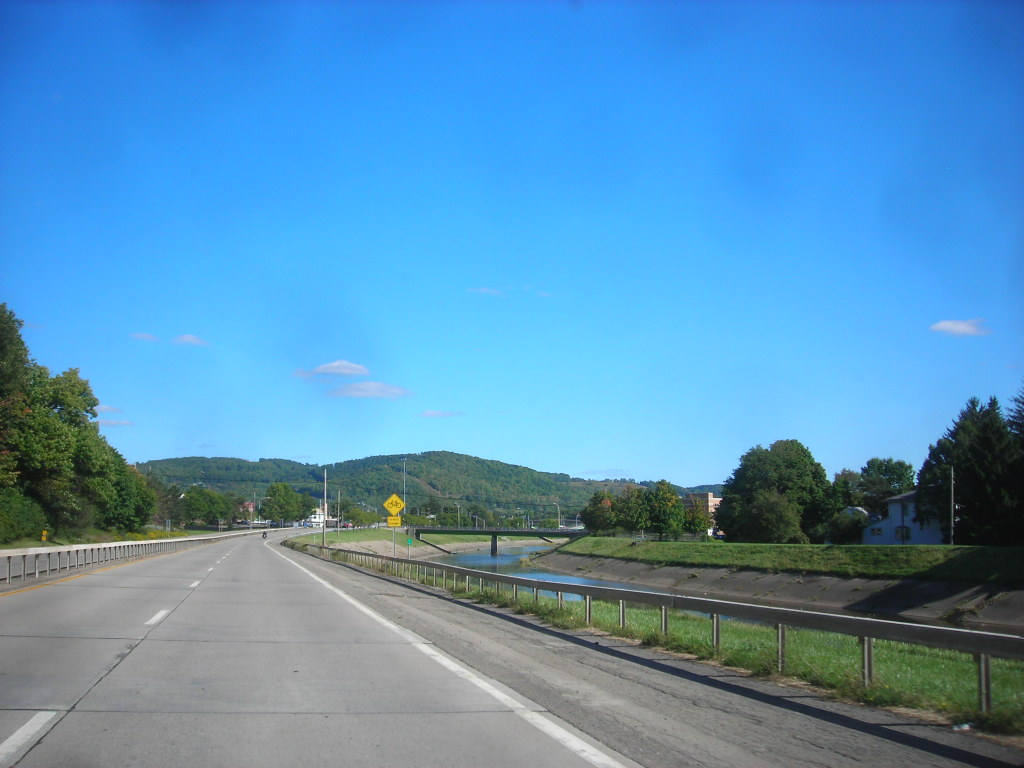 Southbound on the divided highway that carries New York State Route 19 and New York State Route 417 around the village of Wellsville. At right is the Genesee River.